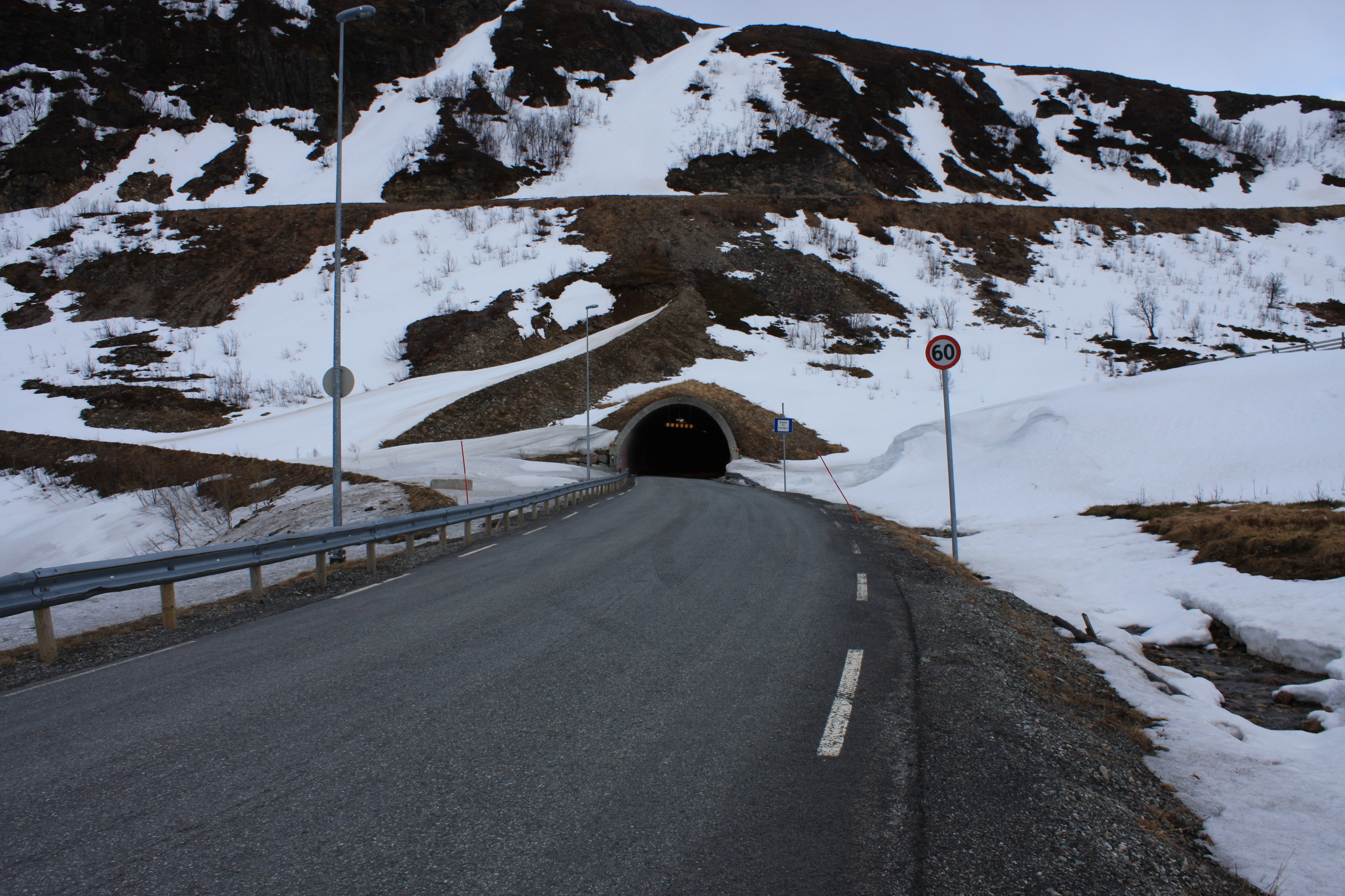 Sørskartunnelen - Northwest Entrance